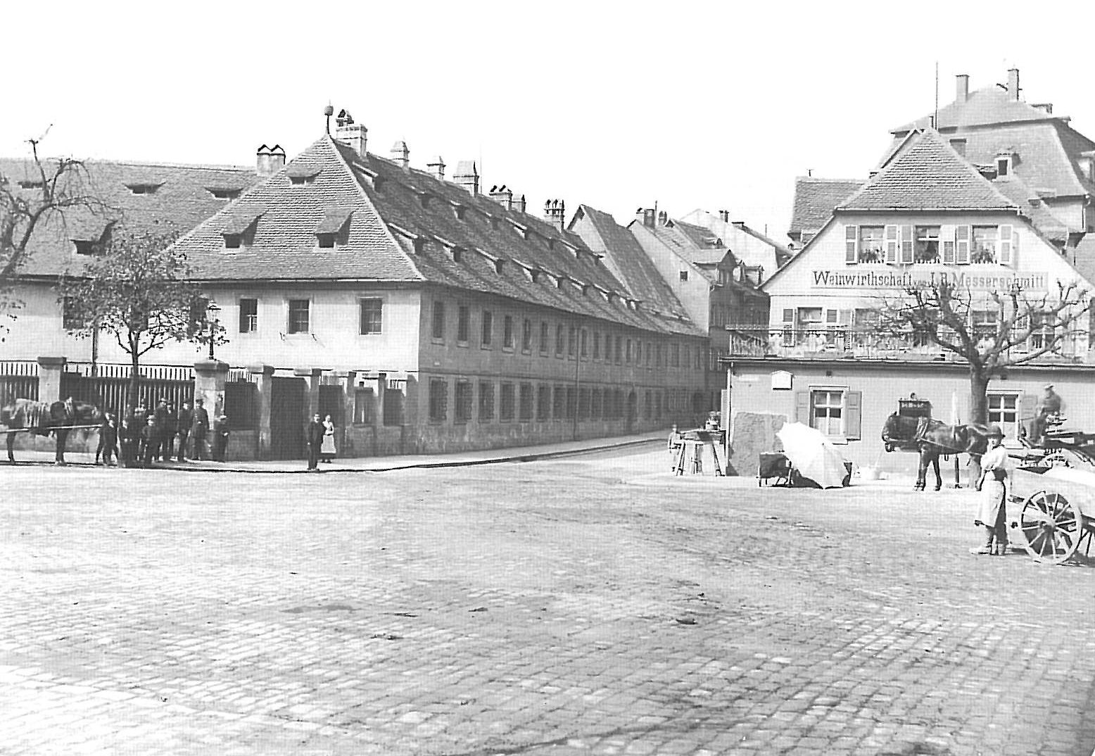 historic photography of Bamberg, Germany